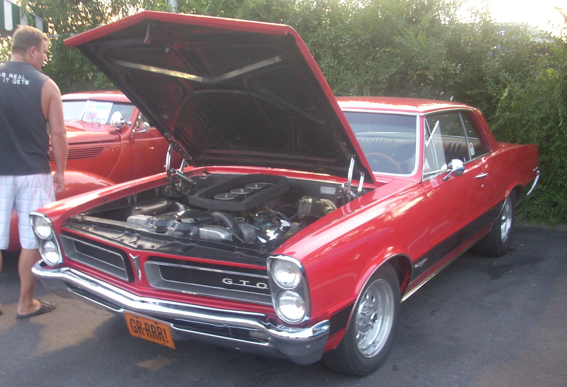 1965 Pontiac GTO photographed in Montreal, Quebec, Canada at Gibeau Orange Julep.